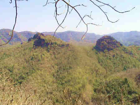 Image created by self user:LRBurdak